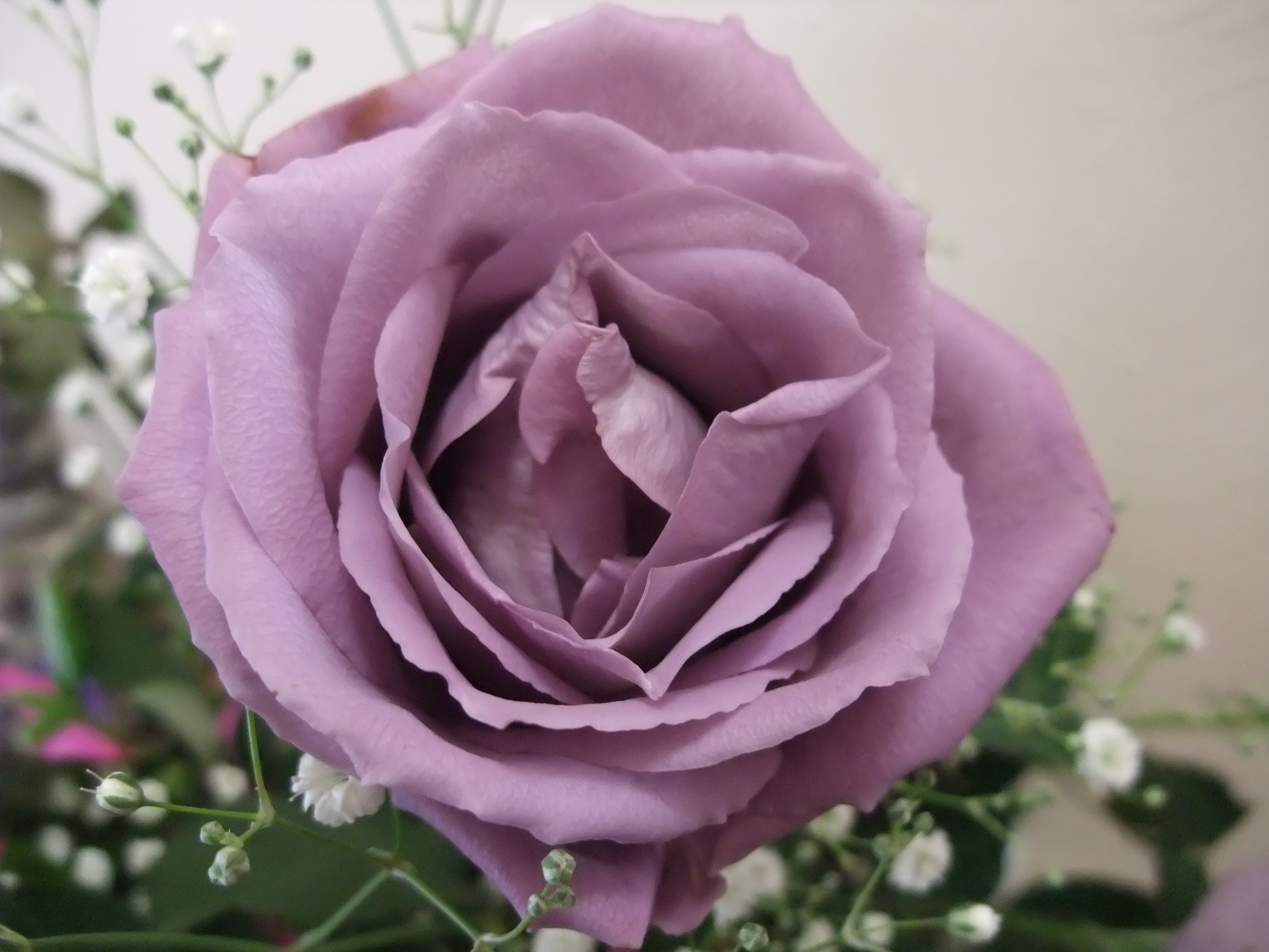 Blue Rose "APPLAUSE"